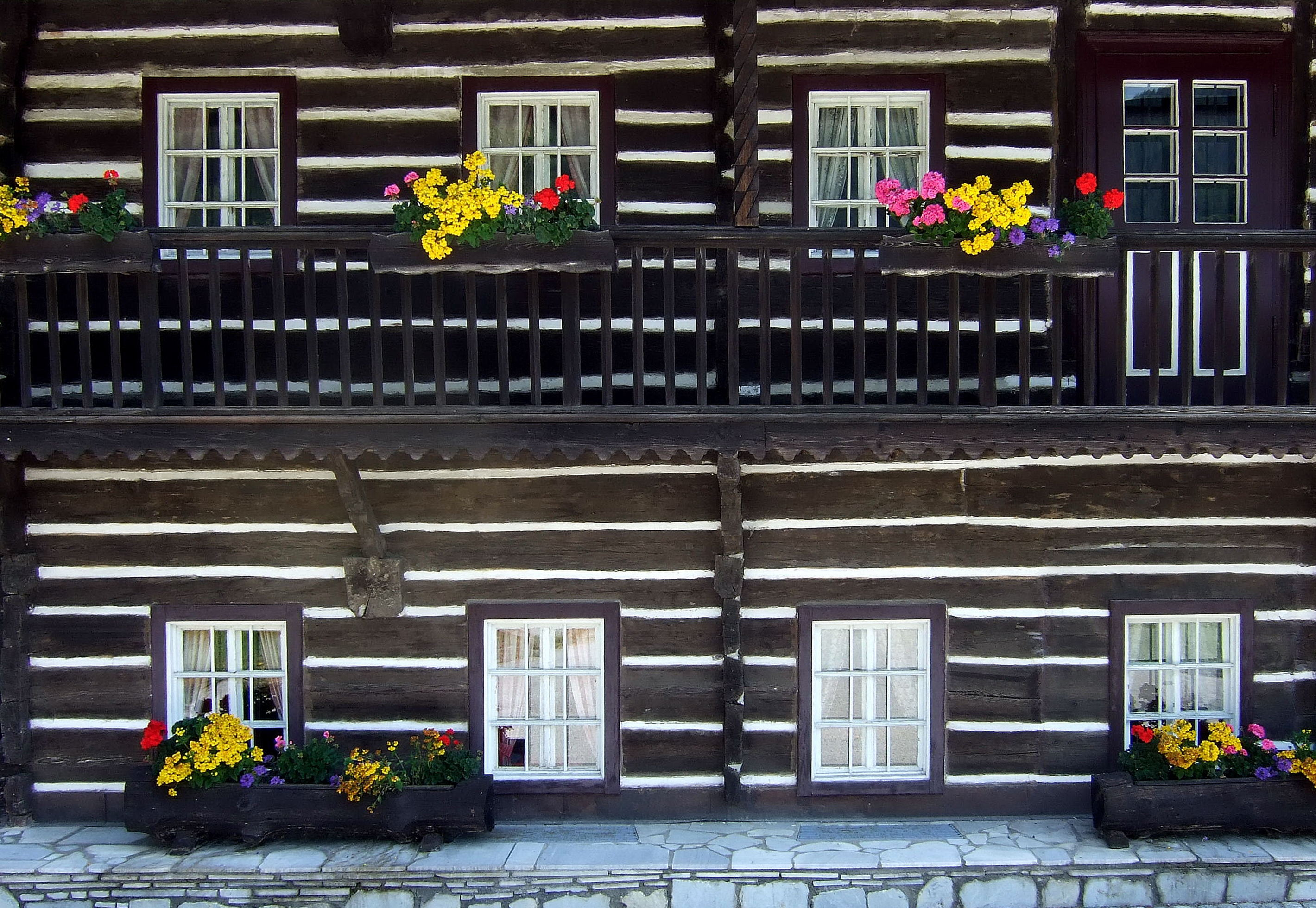 Building culture of the "Wood road" at Gnesau, district of Feldkirchen, Carinthia, Austria